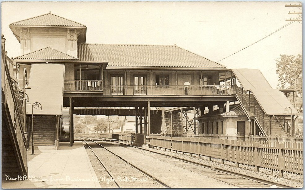 Real Photo Postcard of the New Haven Railroad's Hyde Park station. This postcard is advertised as being printed on KRUXO paper.